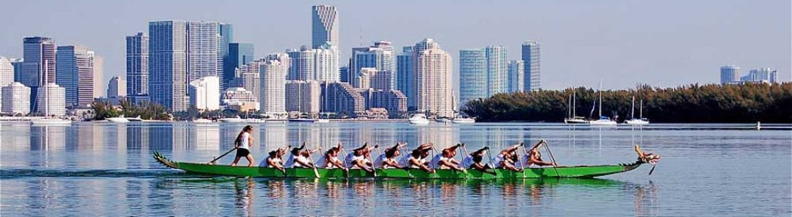 Miami Dragon Slayers